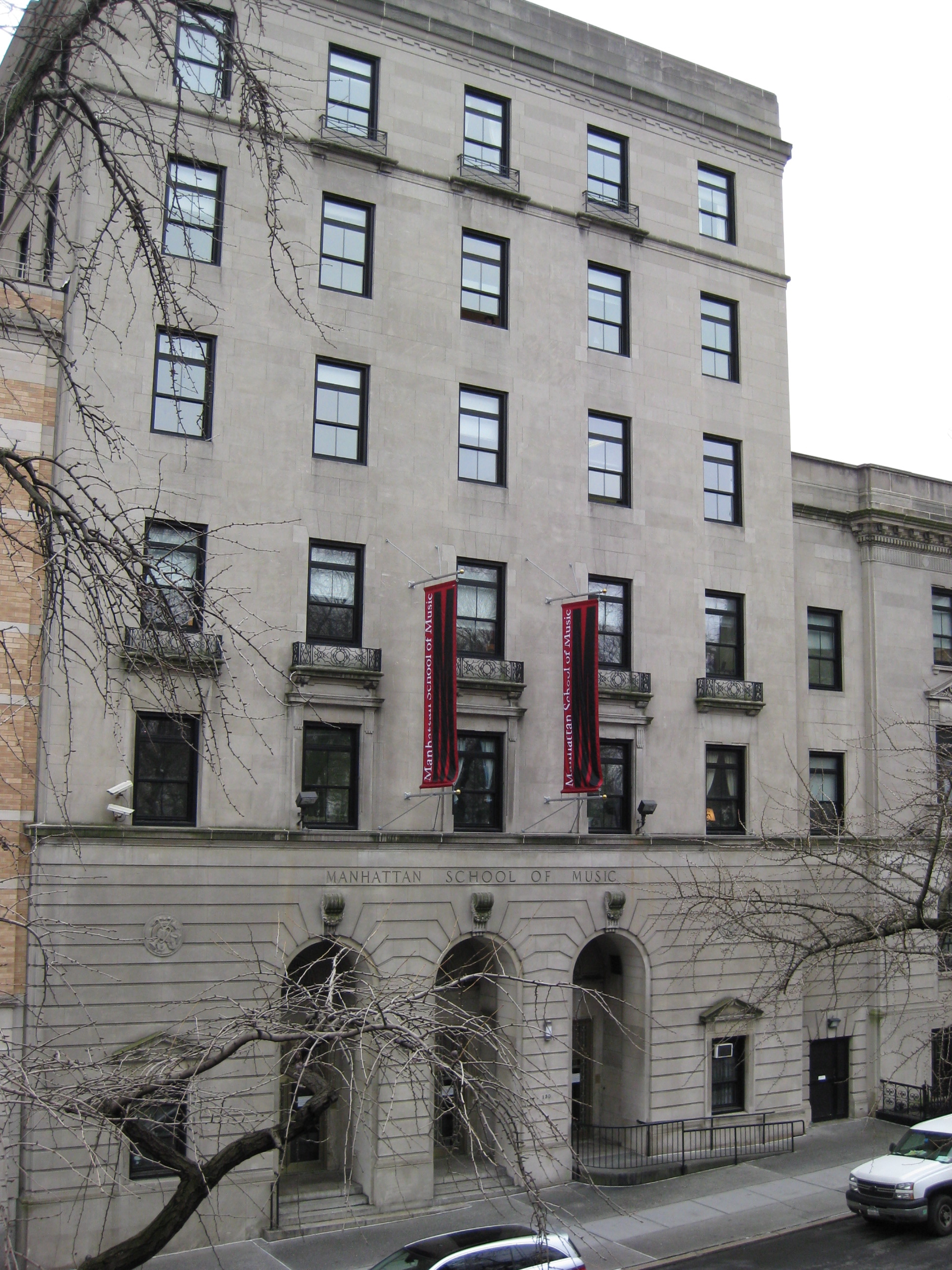 This photo is of Wikipedia Takes Manhattan location code 17, Manhattan School of Music.